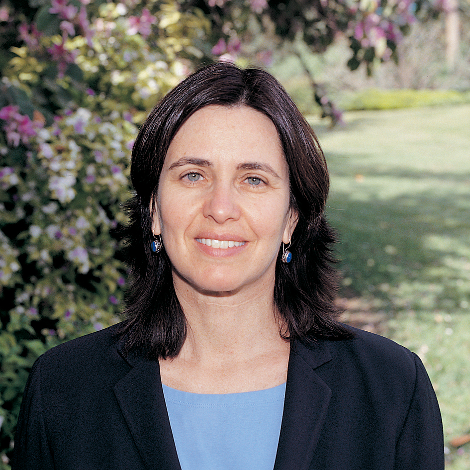 Shafrira Goldwasser (Hebrew: שפרירה גולדווסר; born 1958) is the RSA Professor of electrical engineering and computer science at MIT, and a professor of mathematical sciences at the Weizmann Institute of Science, Israel